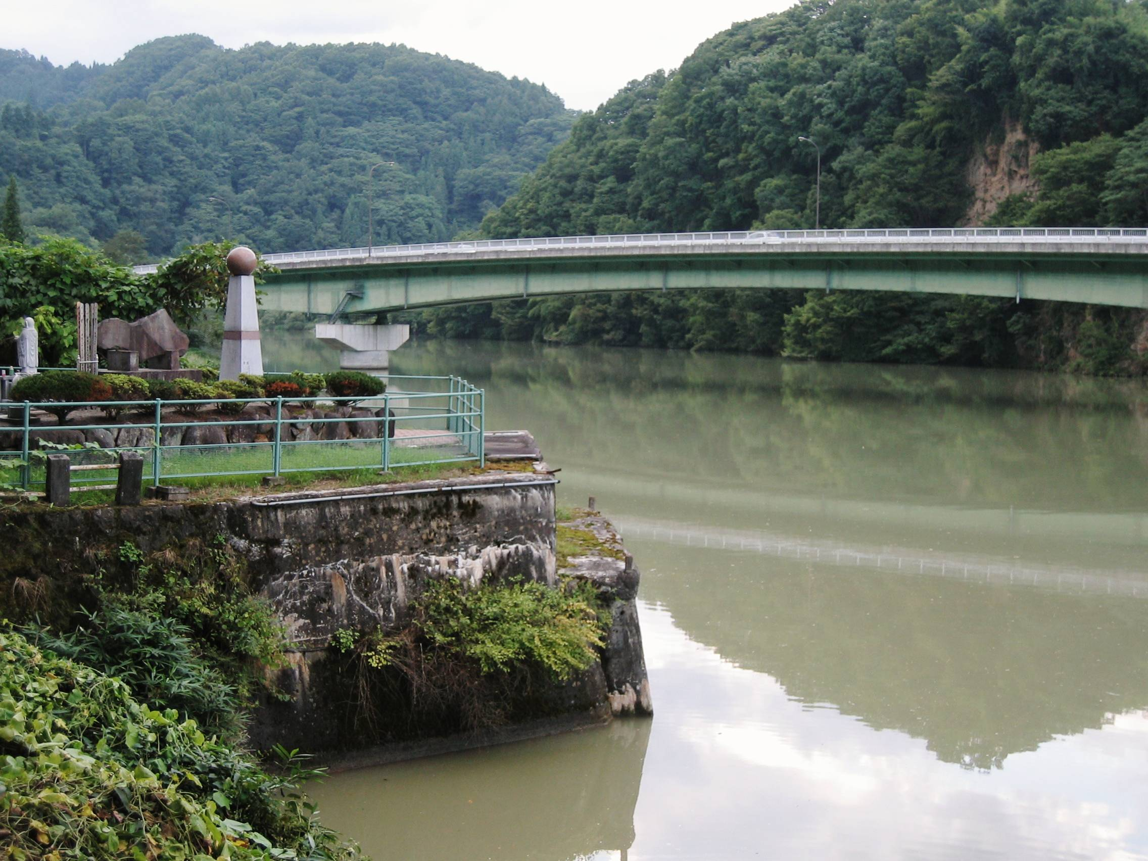 1985 Sai River ski bus accident site.